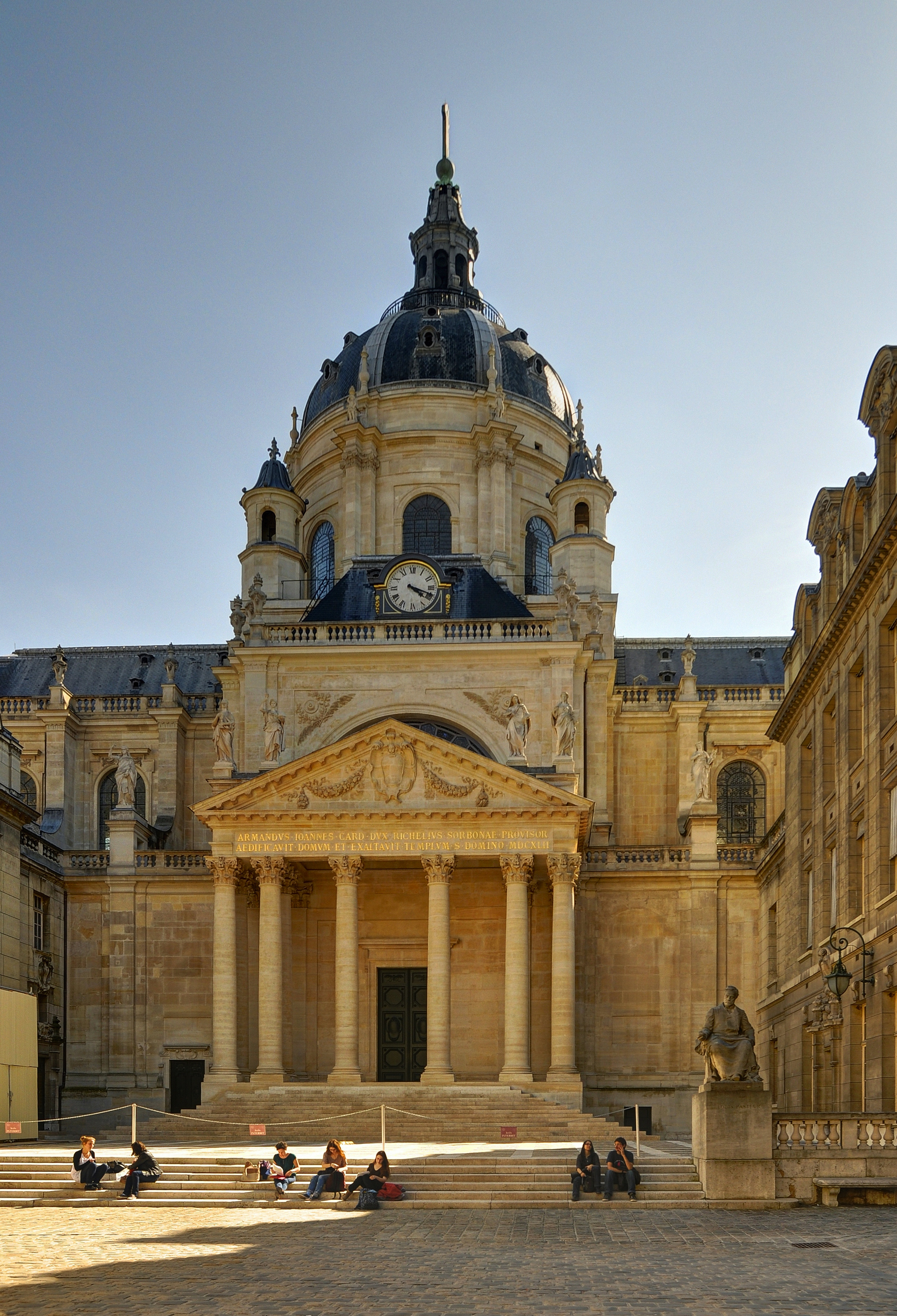 Chapel of St. Ursula of the Sorbonne seen from the courtyard in the 5th arrondissement of Paris.